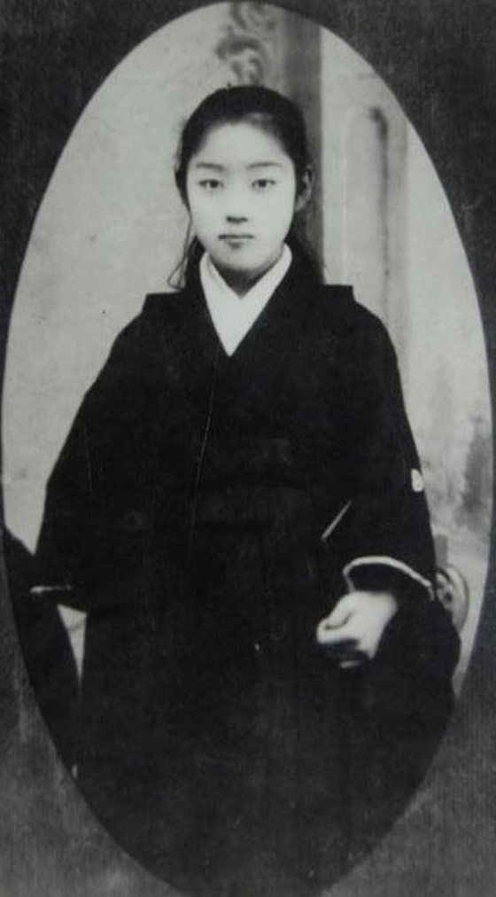 Kaoru Otsuki (b. 1888), wife of Sun Yat-sen, at age 12.